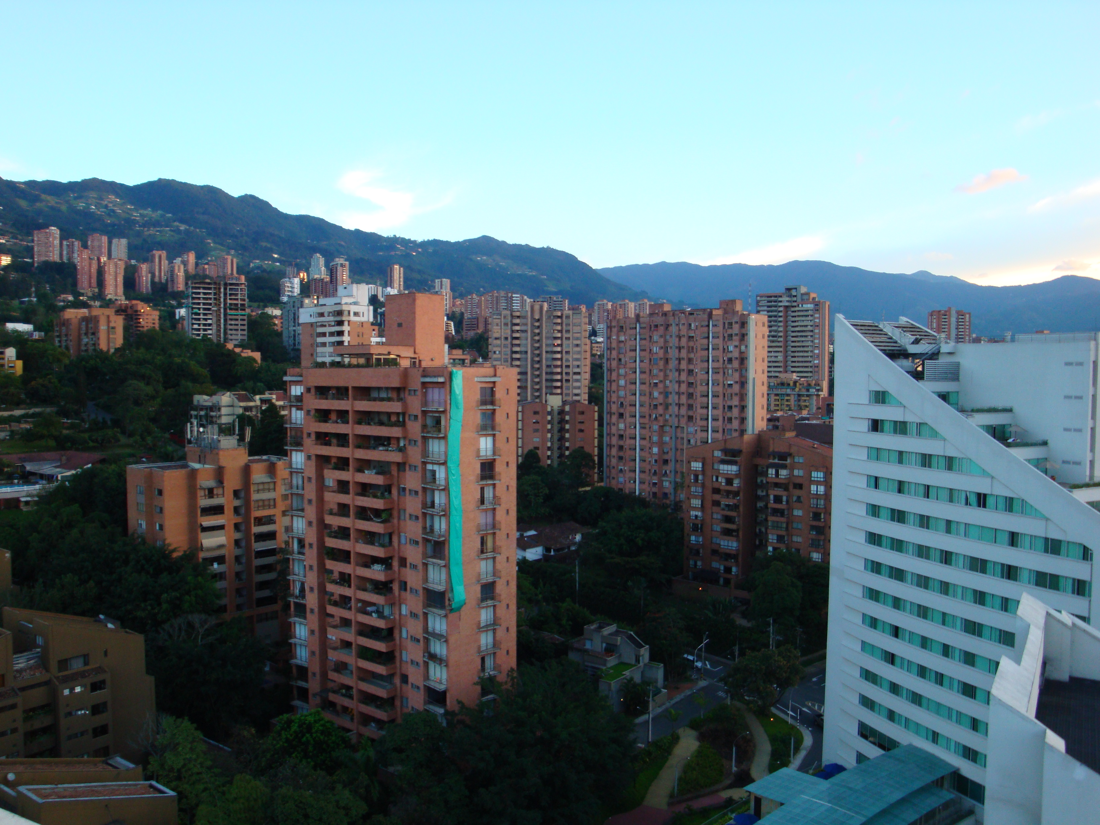 El Poblado neighborhood. Apartment highrises, upper class area in Medellín, Medellín, Columbia.